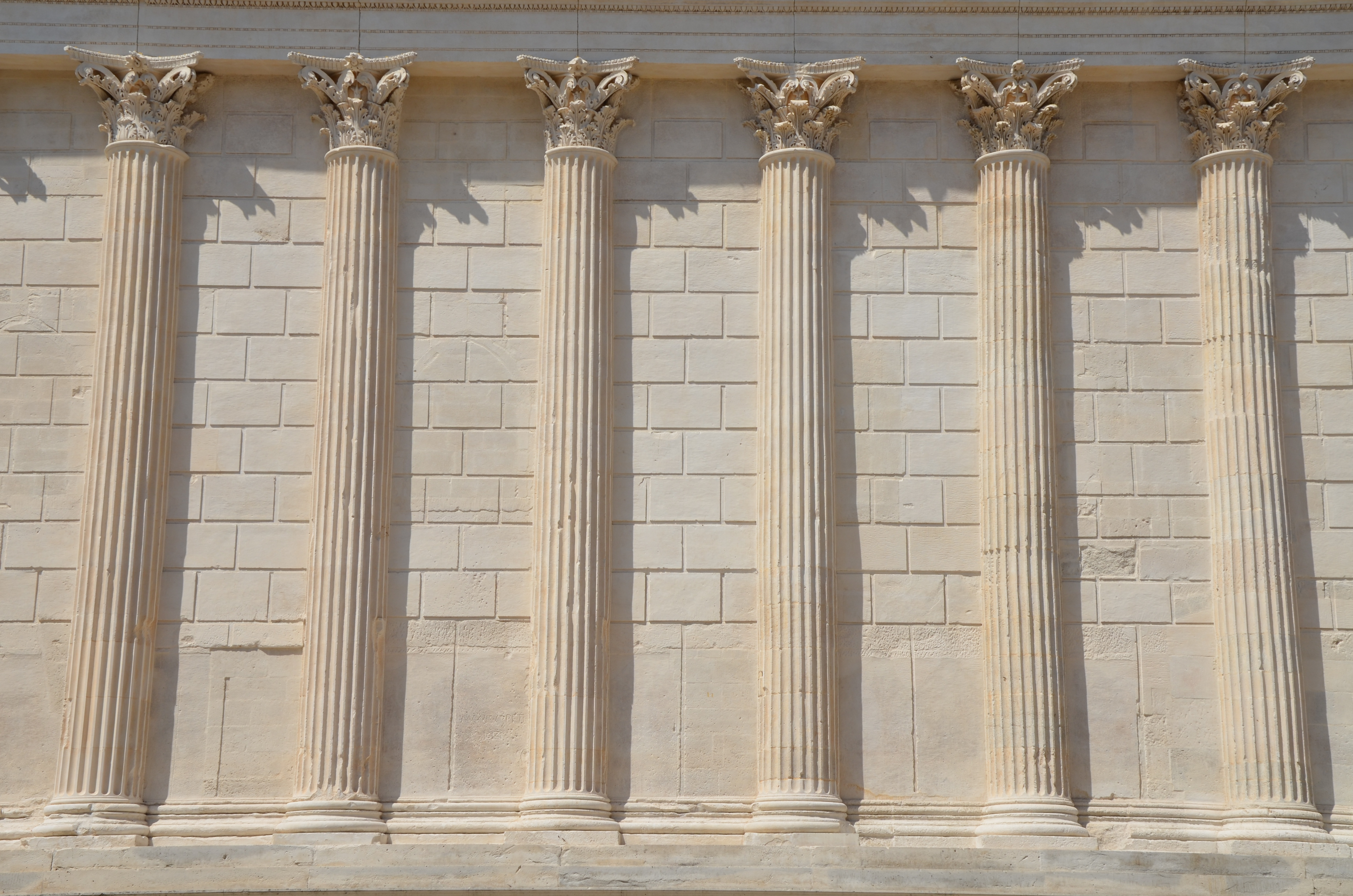 The Maison Carrée, 1st century BCE Corinthian temple commissioned by Marcus Agrippa, Nemausus (Nîmes, France)